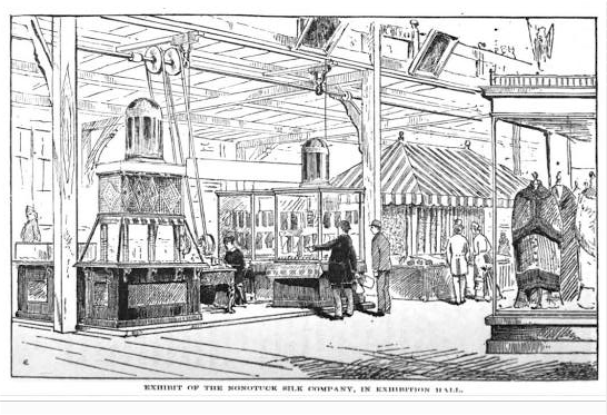 14th Exhibition of the Massachusetts Charitable Mechanic Association. Boston, Sept.-Oct. 1881.